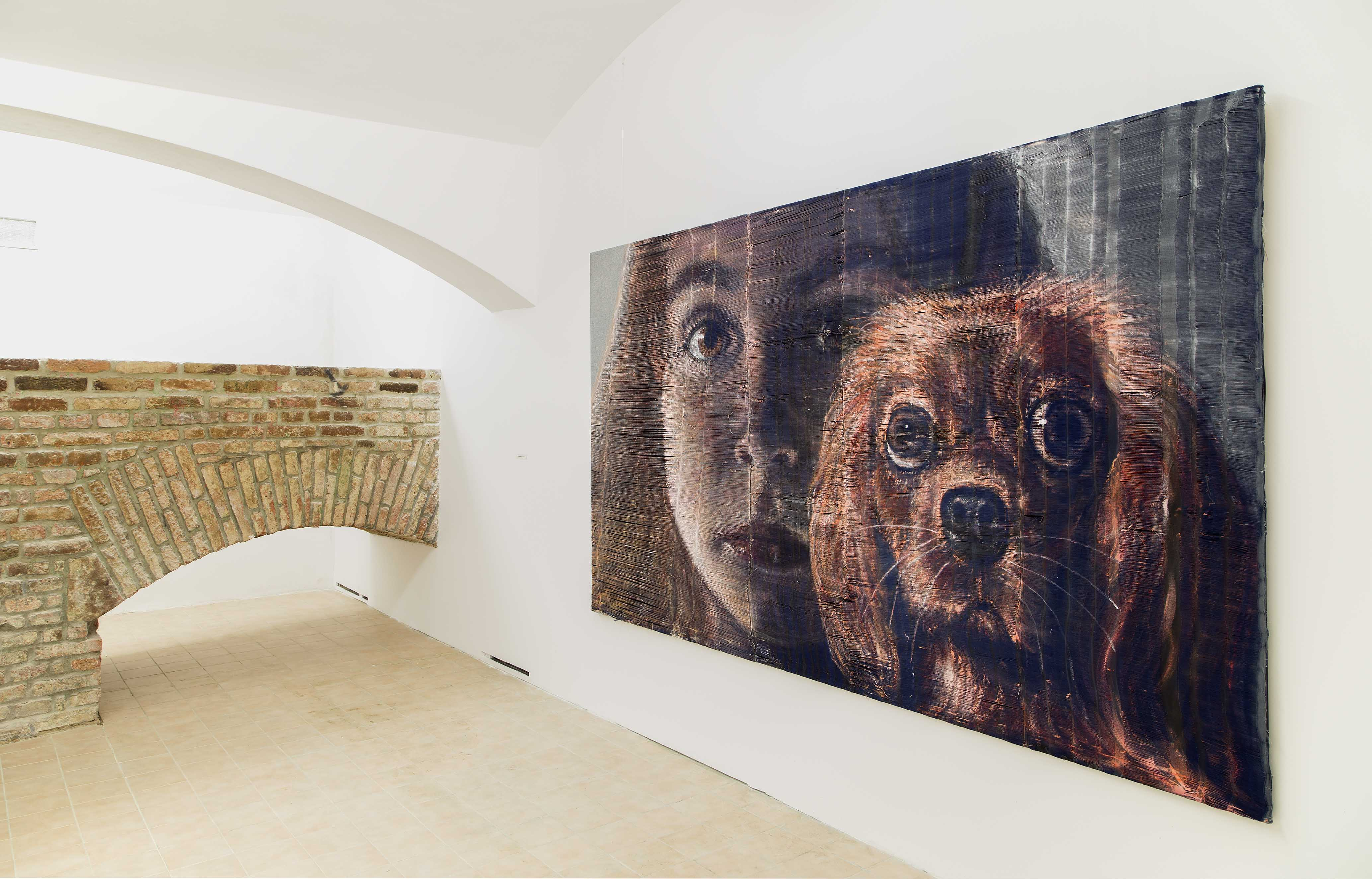 New gallery